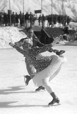 Lilly Scholz and Otto Kaiser at the 1928 Winter Olympics. Title: St. Moritz, Winterolympiade Factual corrections and alternative descriptions are encouraged separately from the original description. Additionally errors can be reported at this page to inform the Bundesarchiv. Original historic description: Die große Winter-Olympiade in St. Moritz! Neueste Aufnahmen von unserem nach St. Moritz entsandten Sonder-Bild-Berichterstatter. Das Wiener Eiskunstlaufpaar Scholz-Kayser bei der Vorführung ihres fabelhaften Könnens.